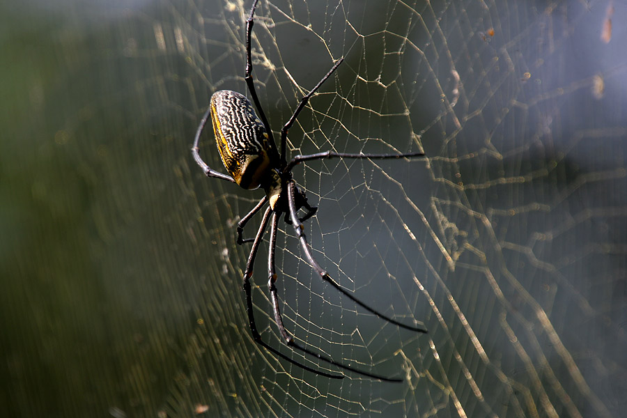 Giant Wood Spider Nephila pilipes at Ananthagiri Hills, in Rangareddy district of Andhra Pradesh, India.